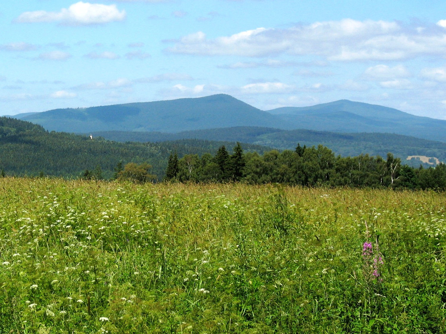 View of the mountains Bobík and Boubín in the Šumava Mts., Czech republic